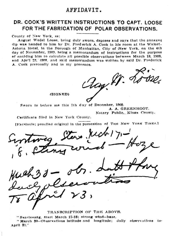 Cook's "instructions" for a set of fake observations